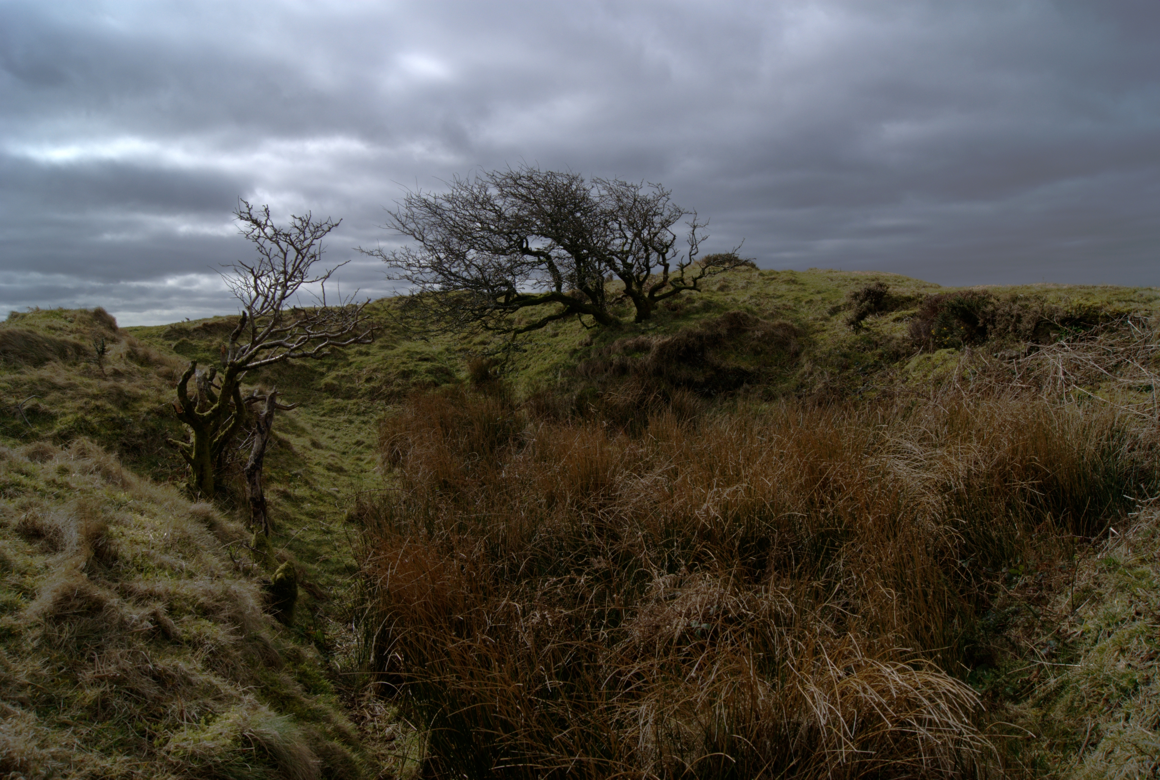 Bronze age barrow, Castle an Dinas